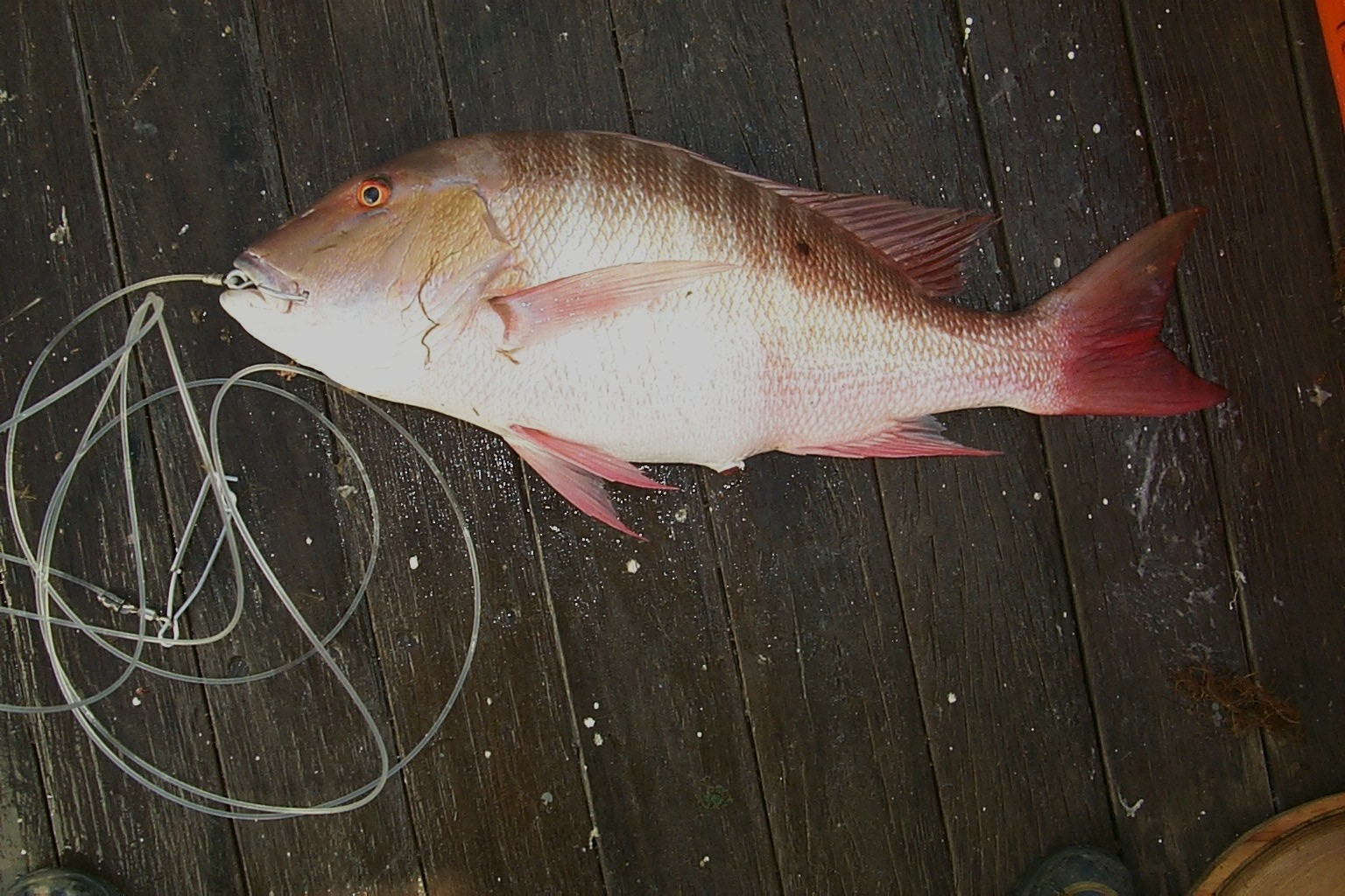 Mutton snapper (Lutjanus analis). Gulf of Mexico. Credit: SEFSC Pascagoula Laboratory; Collection of Brandi Noble, NOAA/NMFS/SEFSC.